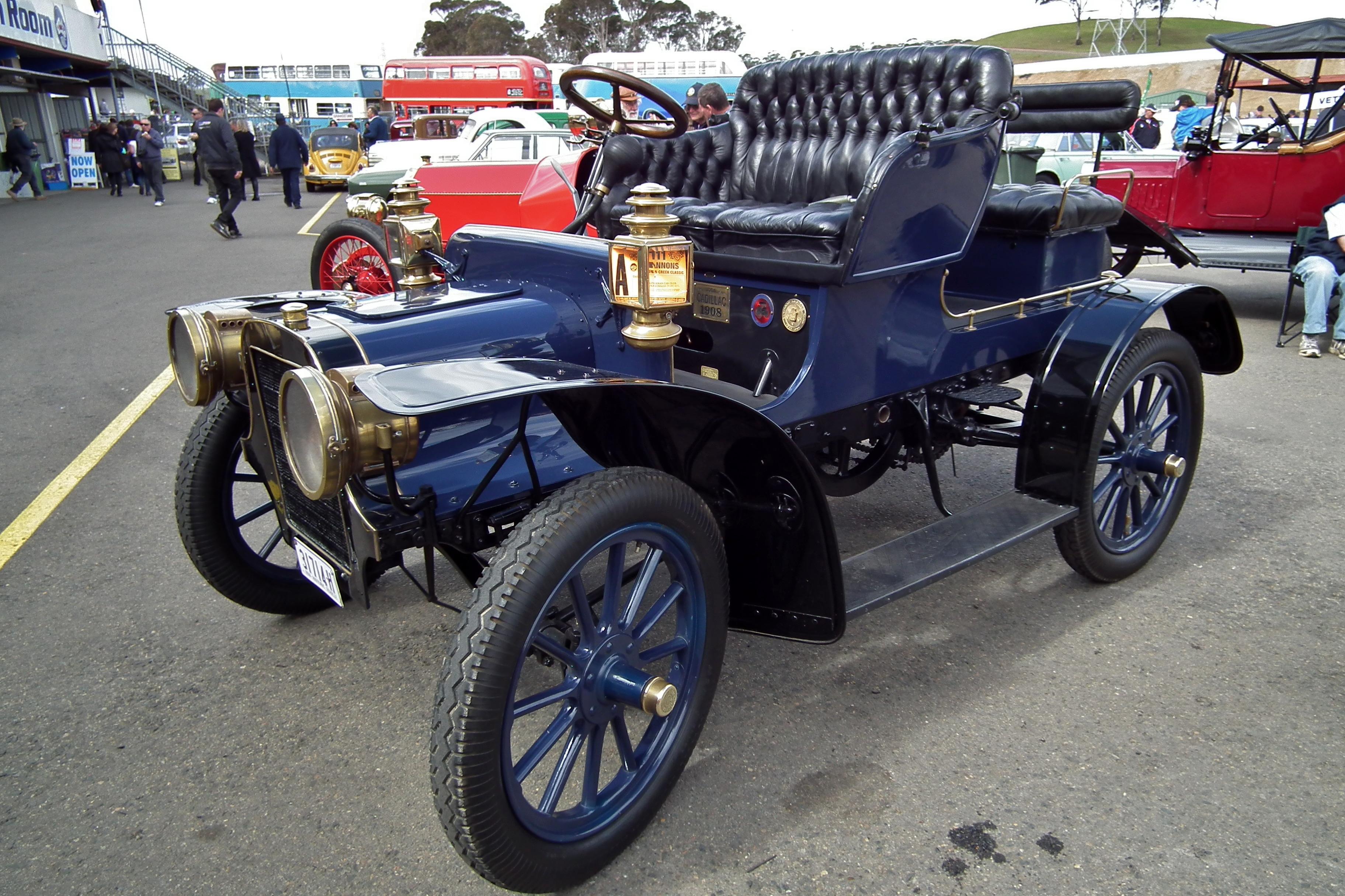 1908 Cadillac Model S runabout. Taken at Shannon's Eastern Creek Classic 2011, held at Eastern Creek Raceway Sydney.